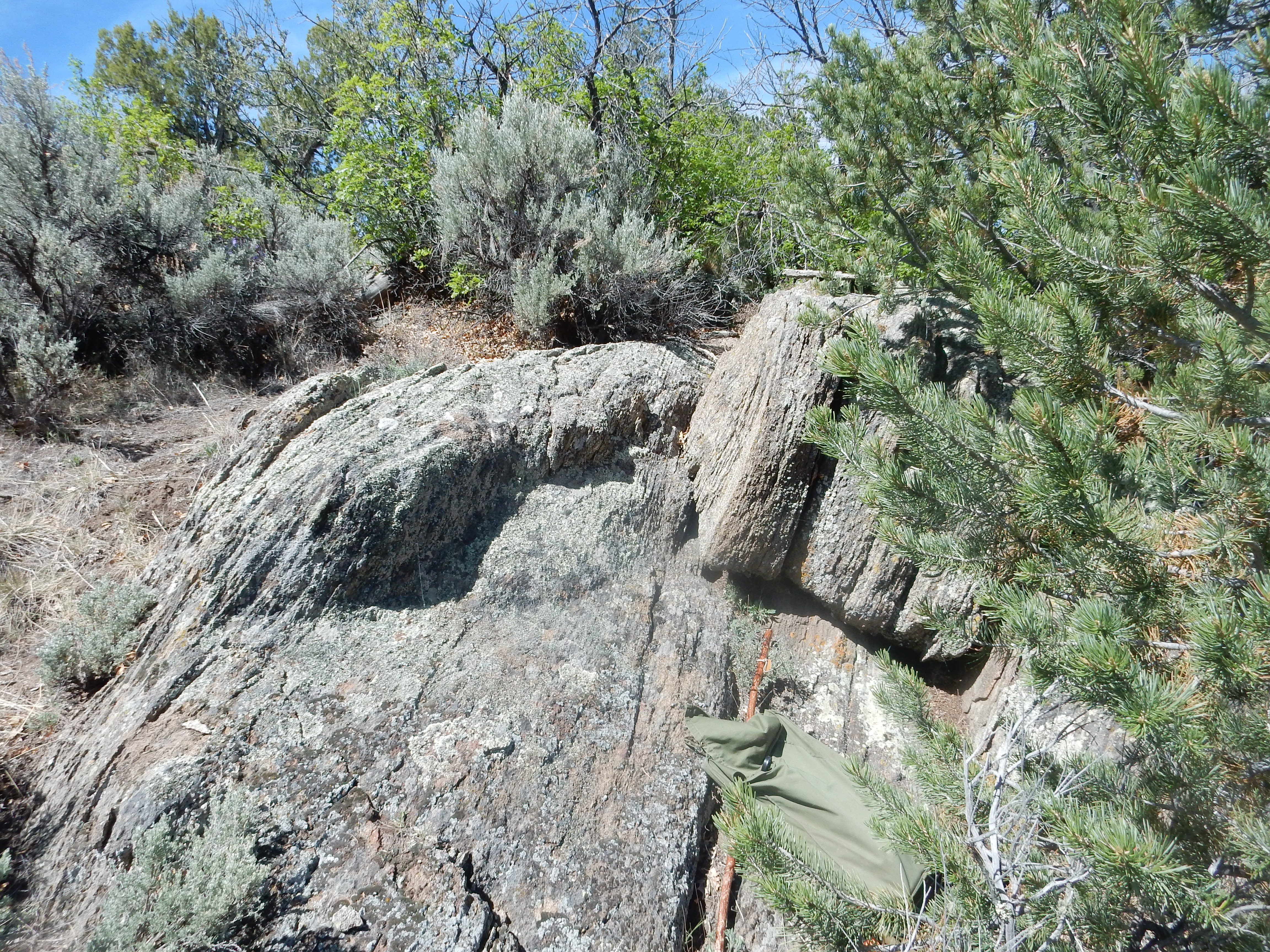 This image shows staurolite-garnet-muscovite schist beds of the Rinconada Formation near Pilar, New Mexico, United States. The Rinconada Formation of the Hondo Group is prominent in the Picuris Mountains east of Pilar and is famous for its large staurolite crystals.